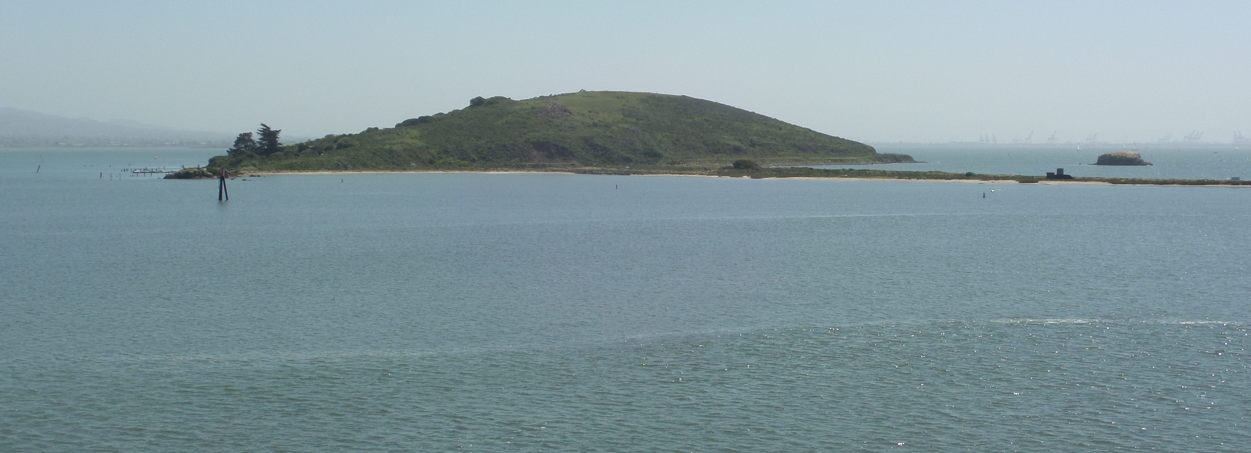 View of the main portion of Brooks Island, San Francisco Bay. To the right of the image can be seen the sandy spit that extends about 1 mile west of the main island. Beyond the spit is the small rock of Bird island. The cranes of the Port of Oakland can be seen in the distance. The photograph was taken looking southeast from the deck of the SS Red Oak Victory moored at Kaiser Shipyard No. 3, at Point Potrero in Richmond, California